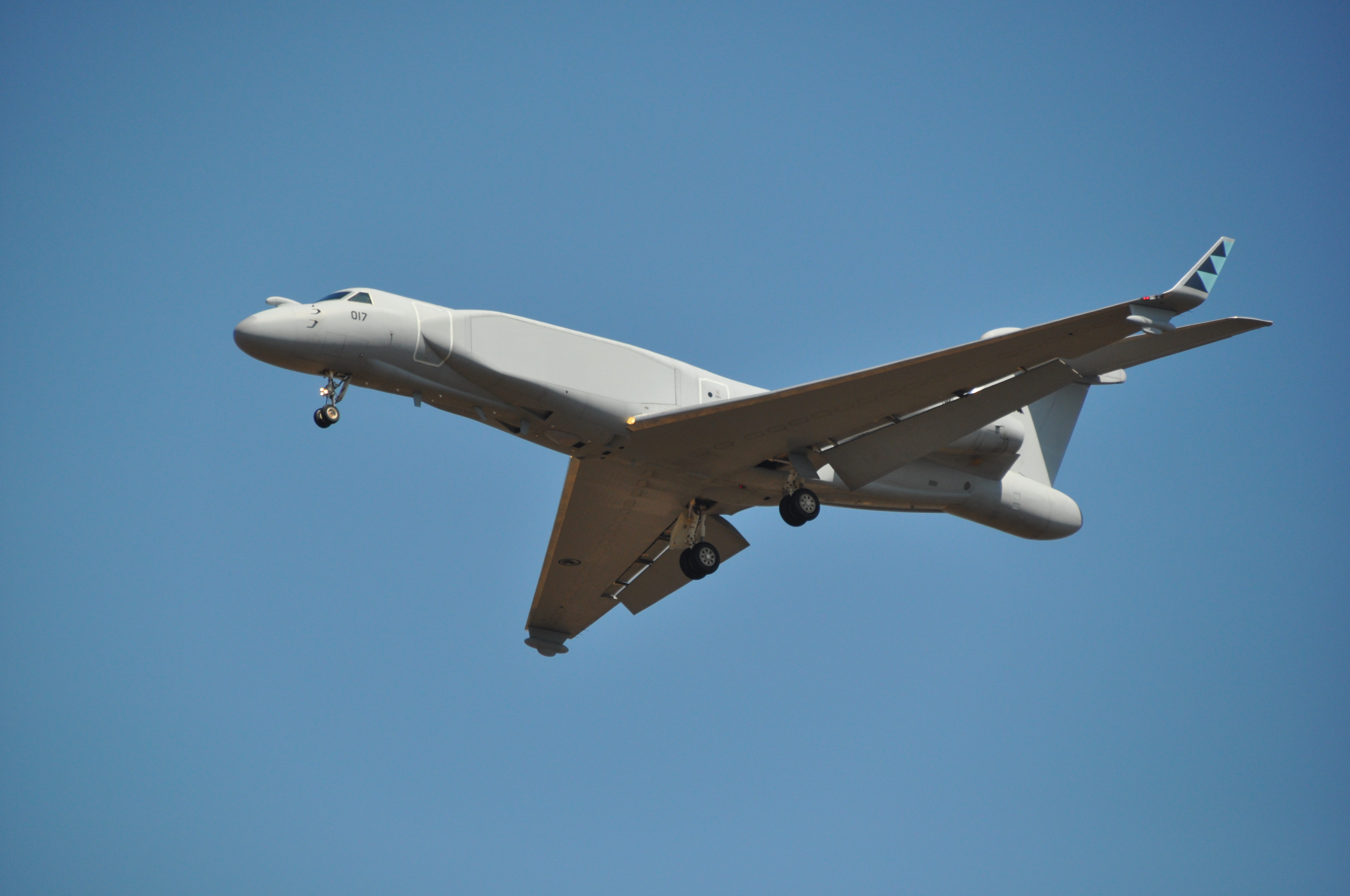 Republic of Singapore Air Force Gulfstream G550 CAEW landing at RAAF Base Darwin during Exercise Pitch Black 2012.